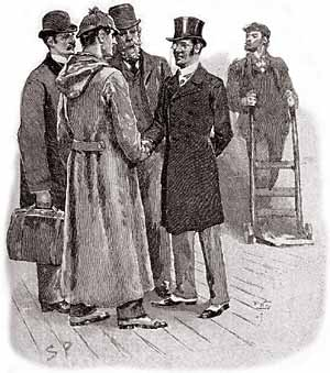 Illustration of the Sherlock Holmes short story Silver Blaze, which appeared in The Strand Magazine in December, 1892. Original caption was "I AM DELIGHTED THAT YOU HAVE COME DOWN, MR. HOLMES."